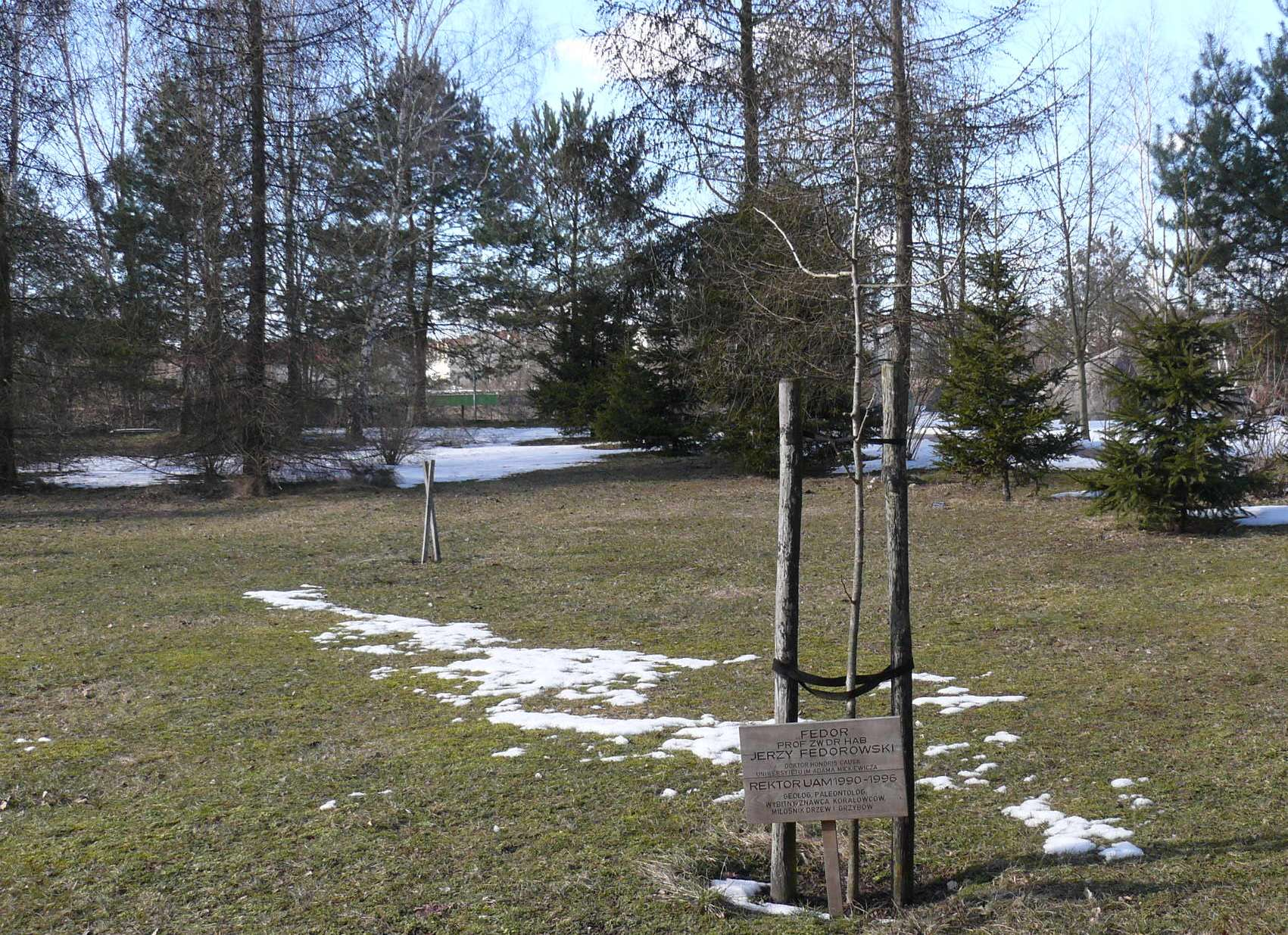 Fedor Oak - Poznan, UAM, Morasko Distr.